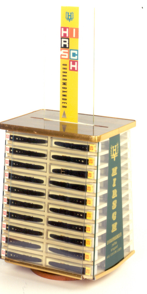 First HIRSCH vending machine